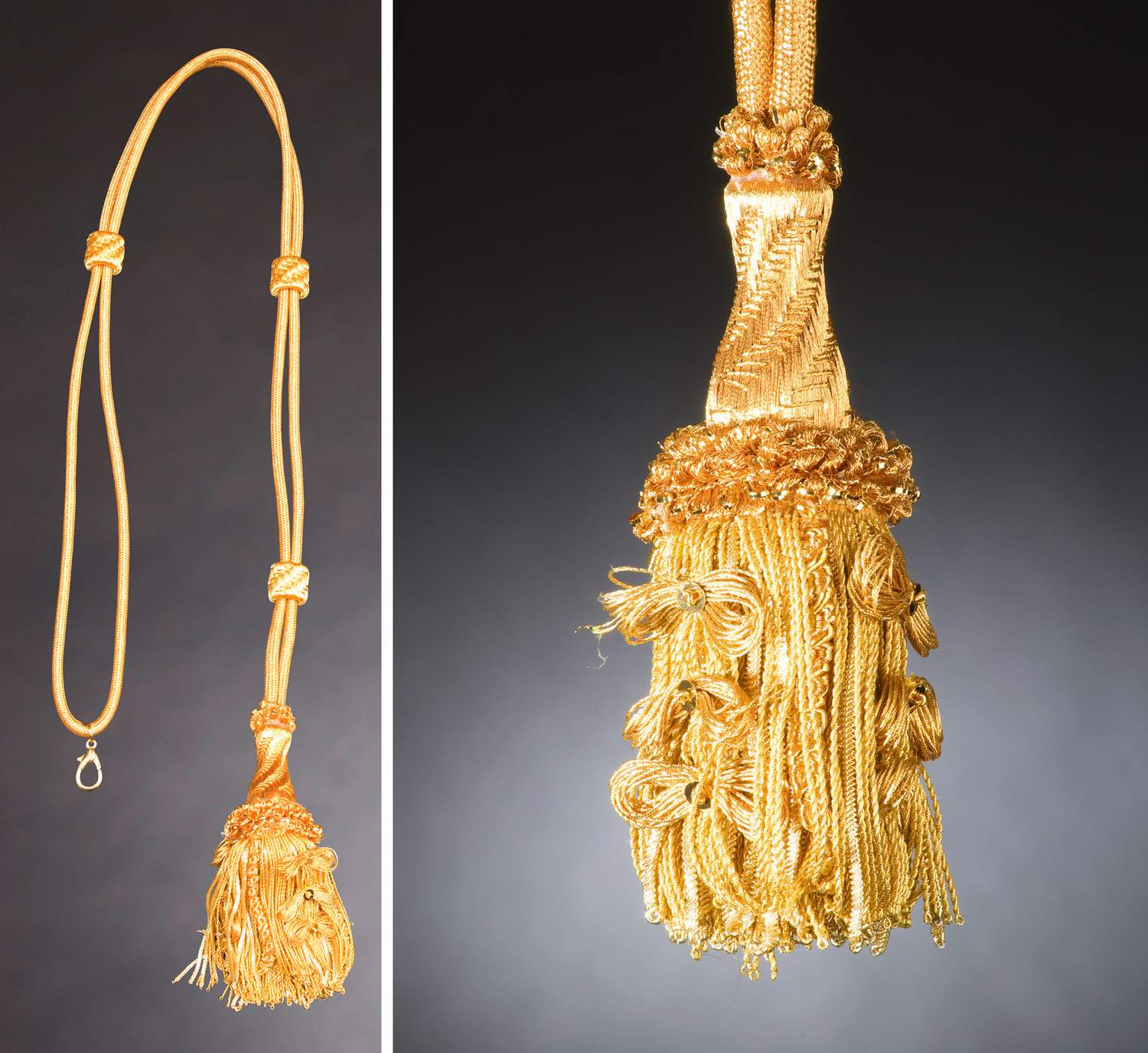 Pectoral Cross Cord of the Pope